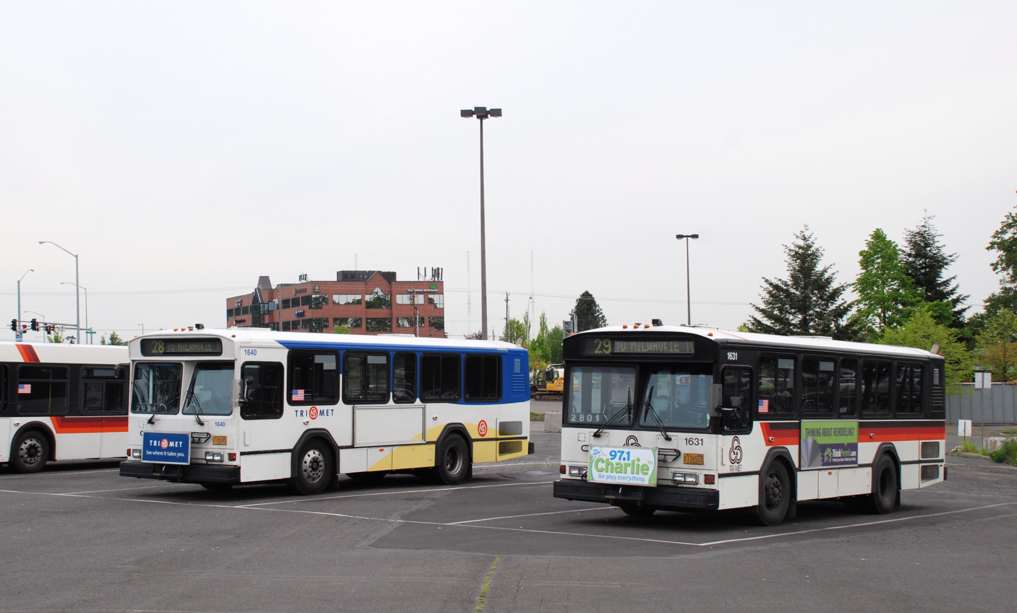 Two 1991-built, 30-foot Gillig buses of TriMet (Portland, Oregon). The bus on the right wears the transit agency's 1980-adopted paint scheme, and the bus on the left shows the new paint scheme which began to replace it in 2002. The photo was taken at a temporary parking area for buses near Clackamas Town Center mall, during construction of a new transit center nearby.